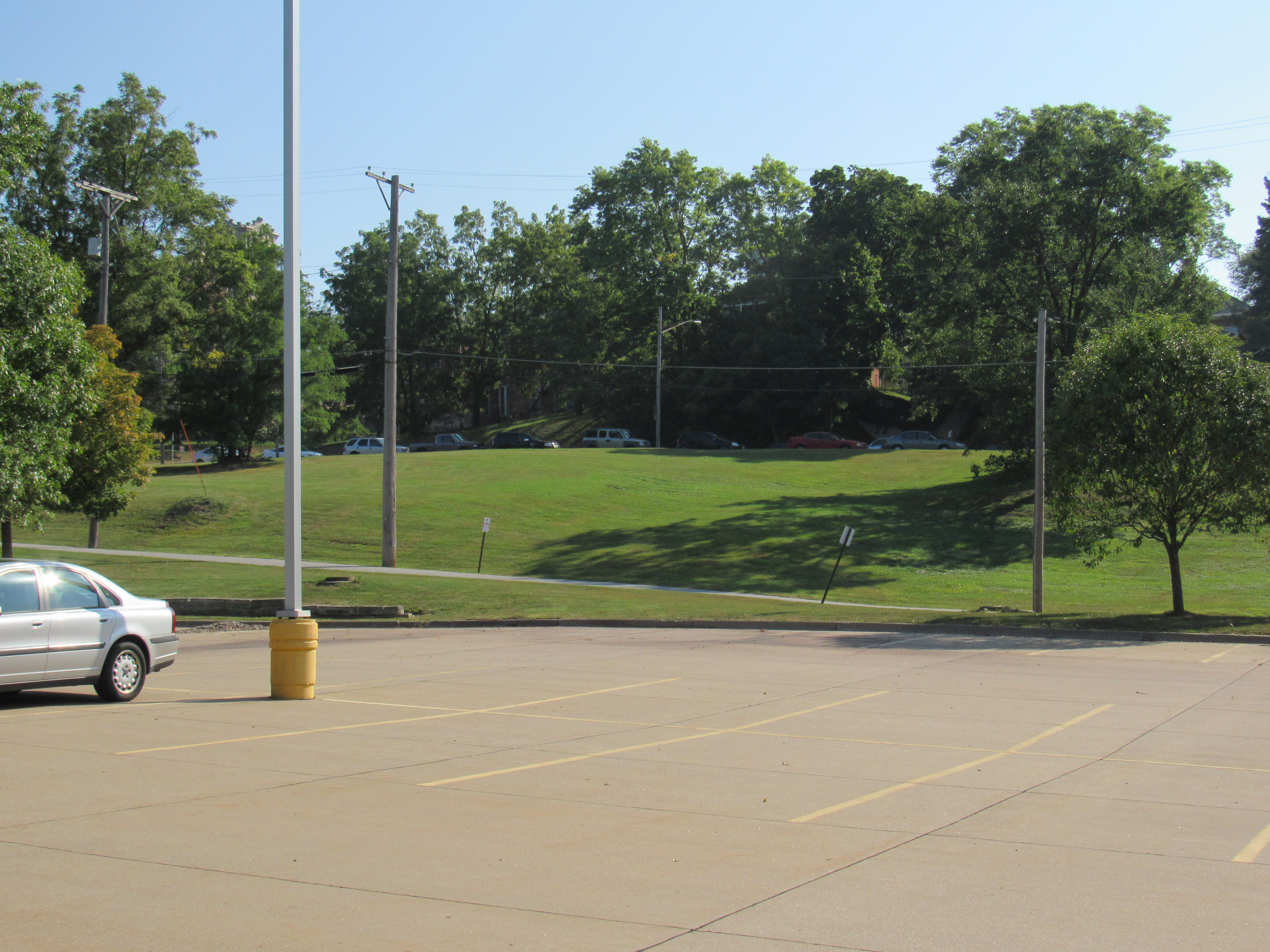 The location of the former Jacob Goering House in Davenport, Iowa is somewhere in this parking lot. It was listed on the National Register of Historic Places.